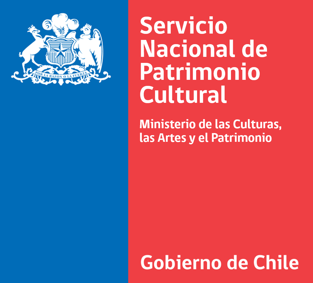 Logo of the National Service of Cultural Heritage.